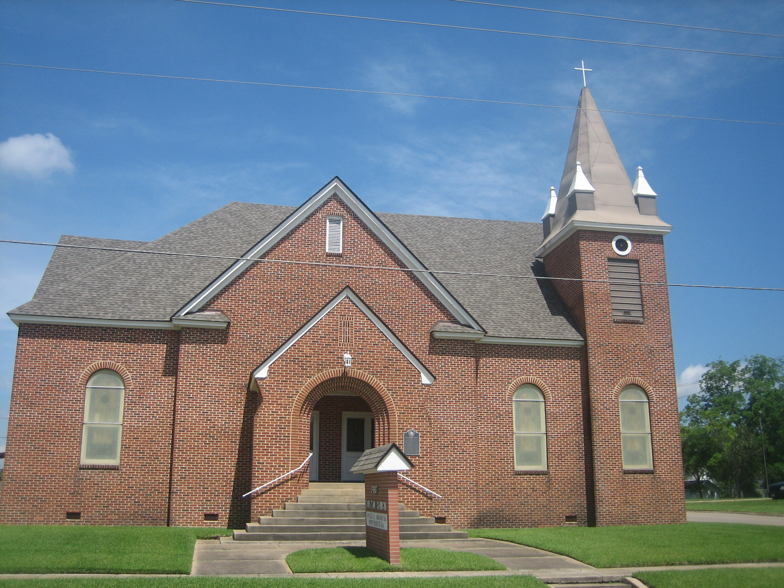 First Christian Church, a Disciples of Christ church, at 124 Cora Street in Center, Texas, is one of the oldest congregations in the community.